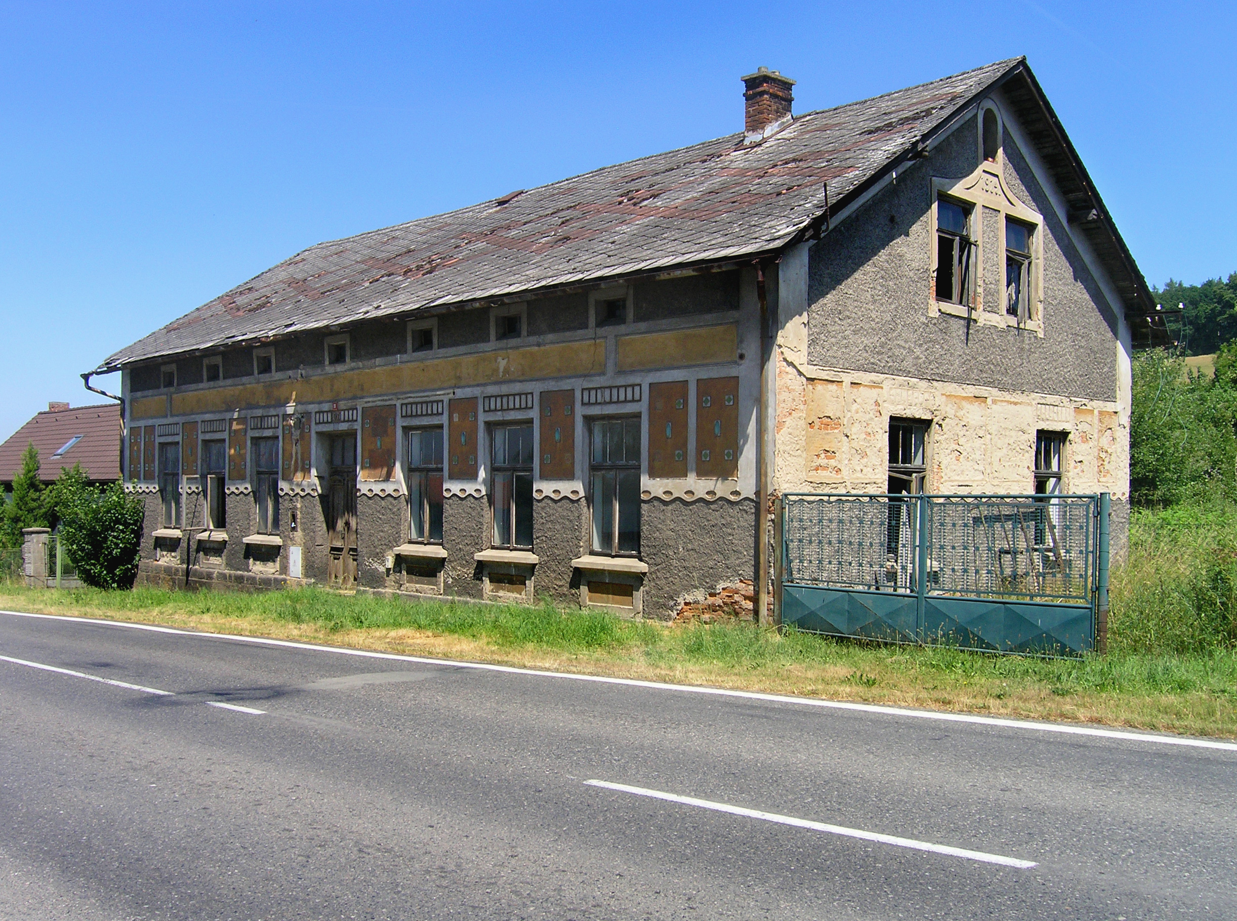 Common in Žantov, part of Kněžmost, Czech Republic